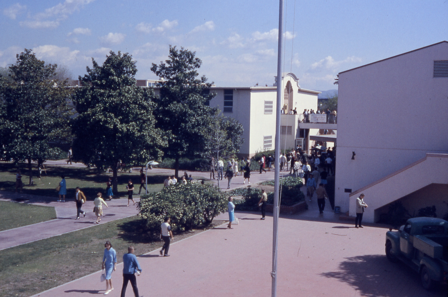 Interior campus view of Fullerton Junior College. Taken with a 35mm Exakta VX, using Ektachrome slide film.